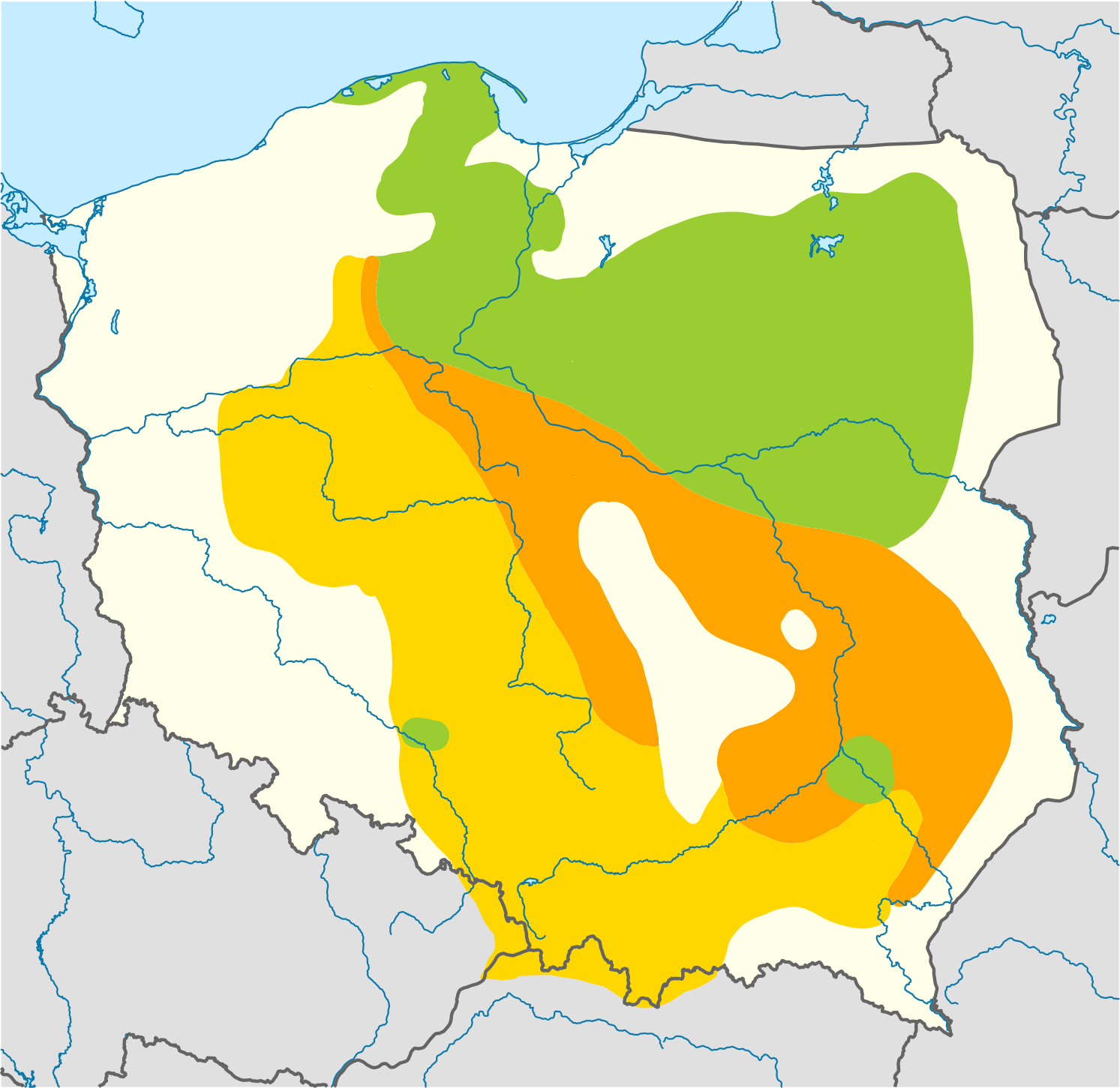 So-called "raised e" sound in Polish dialects